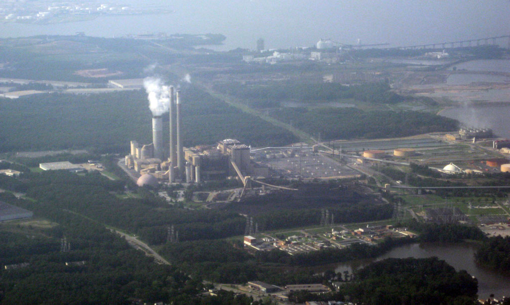 Air photo of Brandon Shores Generating Station in Anne Arundel County, Maryland, near Baltimore. View facing north.